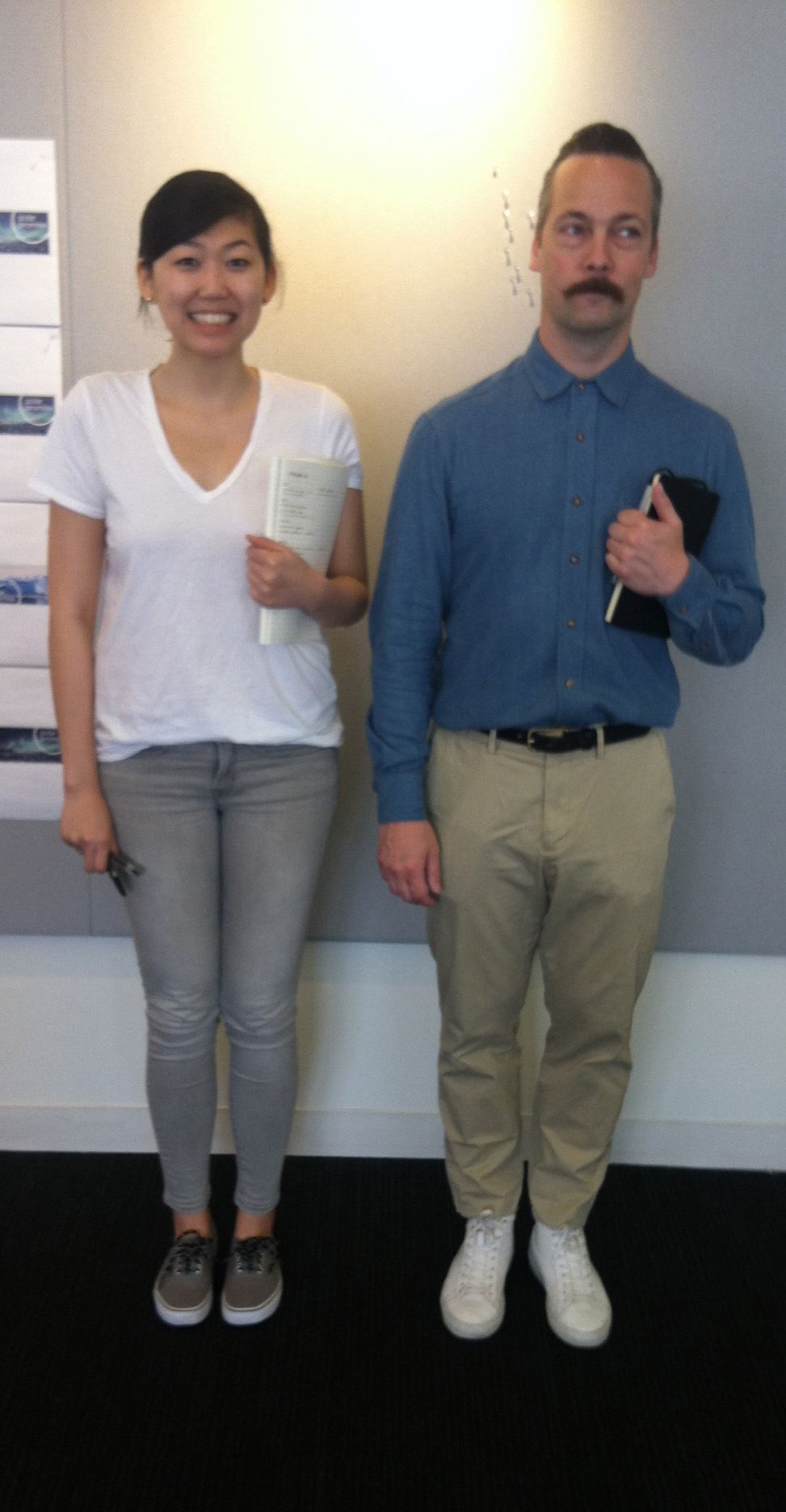 A great example of average Normcore outfits